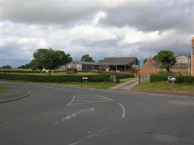 Edge of Dalton. Dalton village is to the right, Thirsk to the left, Topcliffe industrial estate behind.